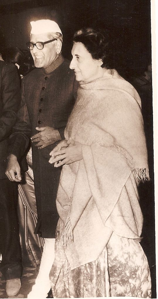 Amarnath Vidyalankar with Indira Gandhi. circa 1975